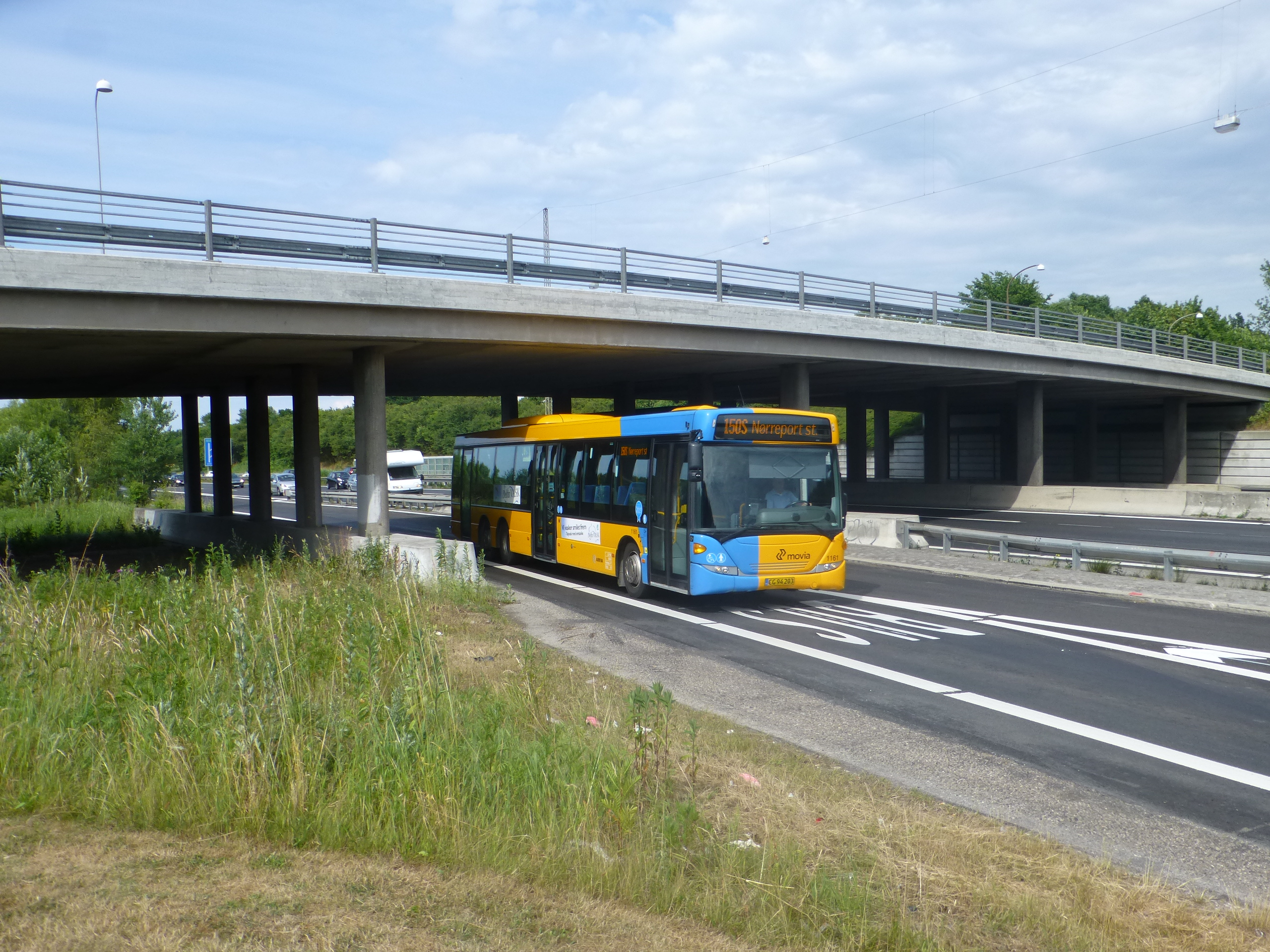 Movia bus line 150S on Helsingørmotorvejen at the bridge for Rævehøjvej north of Copenhagen.